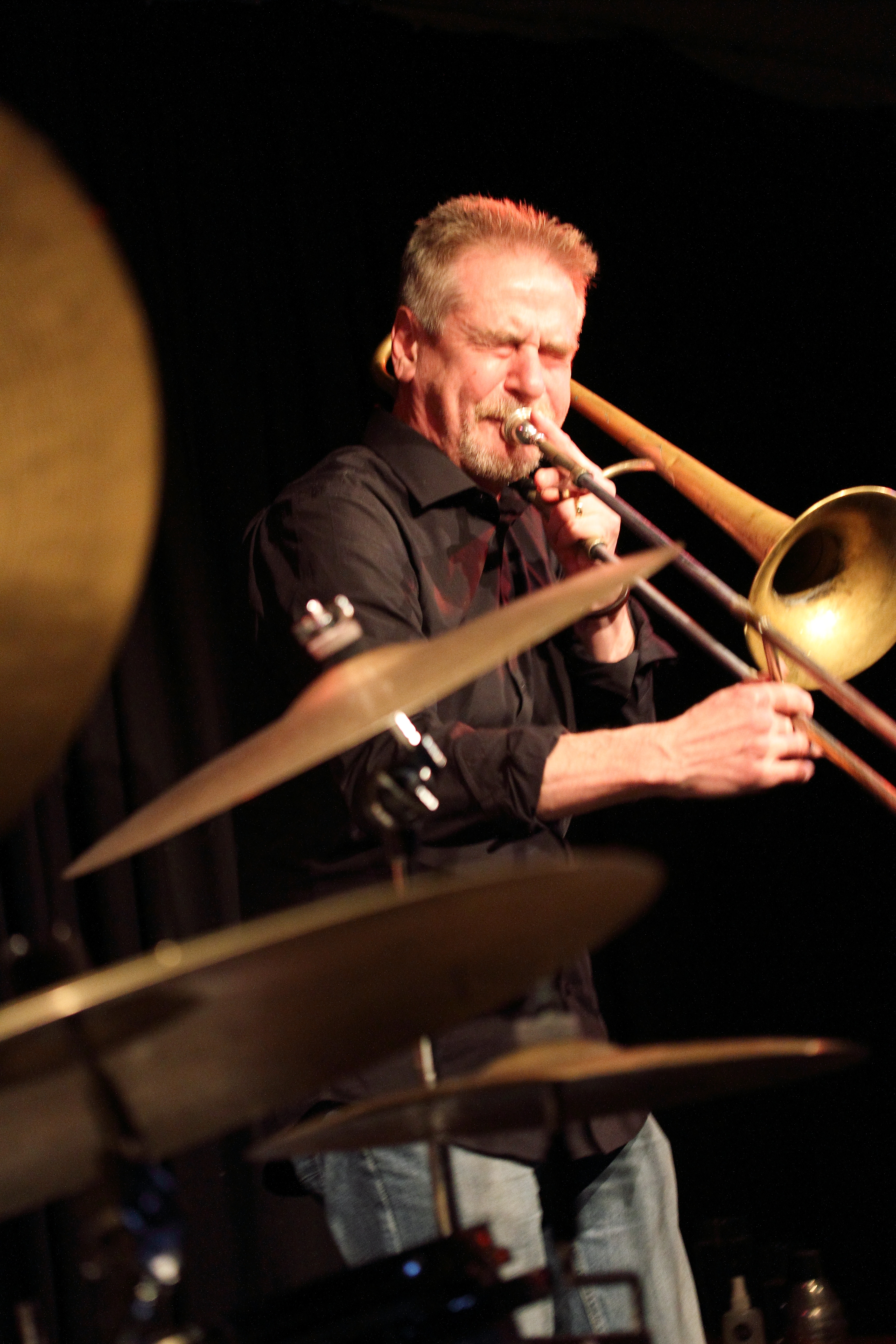 Steve Swell in concert with Peter Brötzmann and Paal Nilssen-Love at Club W71, 2016.